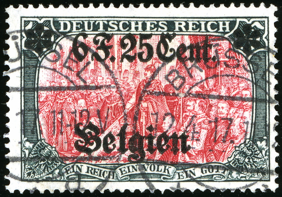 Overprint of a German 5 Mk stamp for use in occupied Belgium, 6Fr25C, cancelled in 1917. Michel N°25I.